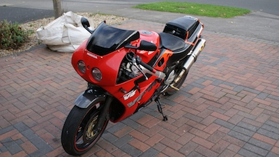 Honda VFR400 NC30 1992 in Black / Red